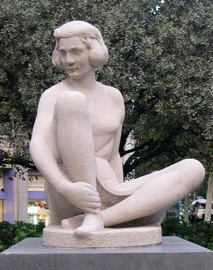 Repòs, by Manolo Hugué, in Barcelona